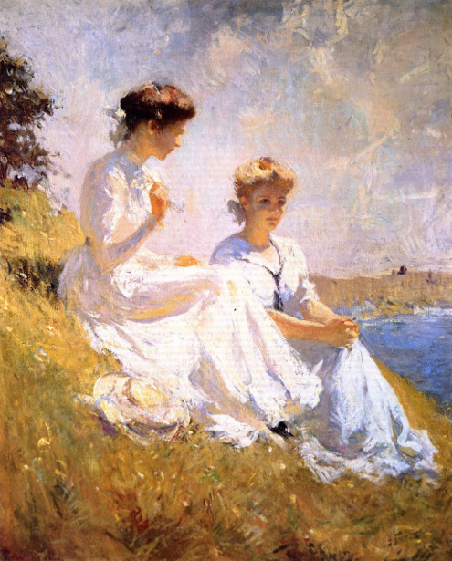 Elizabeth and Anna (oil), c.1909, Frank Weston Benson